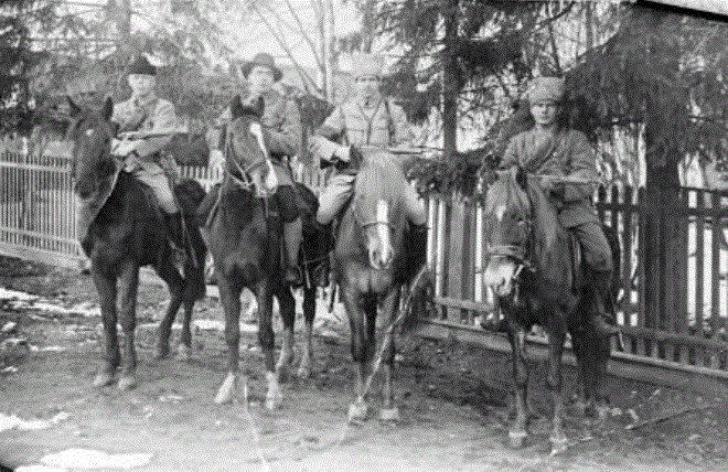 Finnish Red Guard commander August Wesley (1887-1942), second from the right.